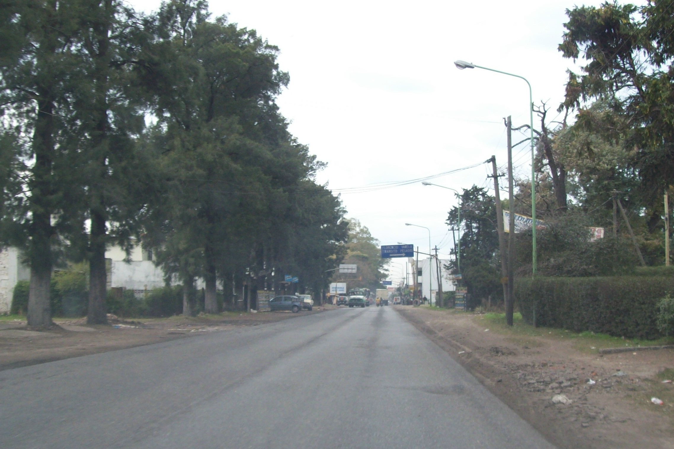 Camino General Belgrano (Ruta Provincial 14) near Cruce Varela, Provincia de Buenos Aires, Argentina.